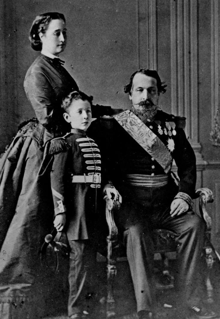 Emperor Napoleon III with his family.